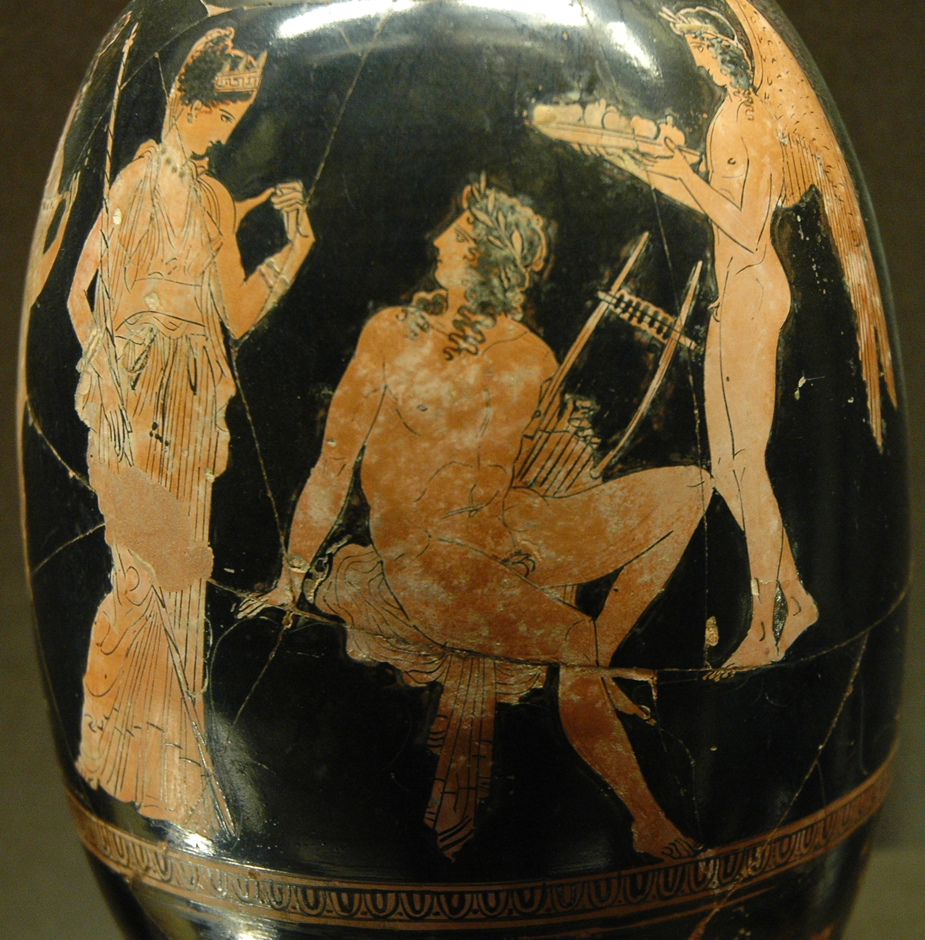 Aphrodite and Adonis. Attic red-figure squat lekythos, ca. 410 BC.